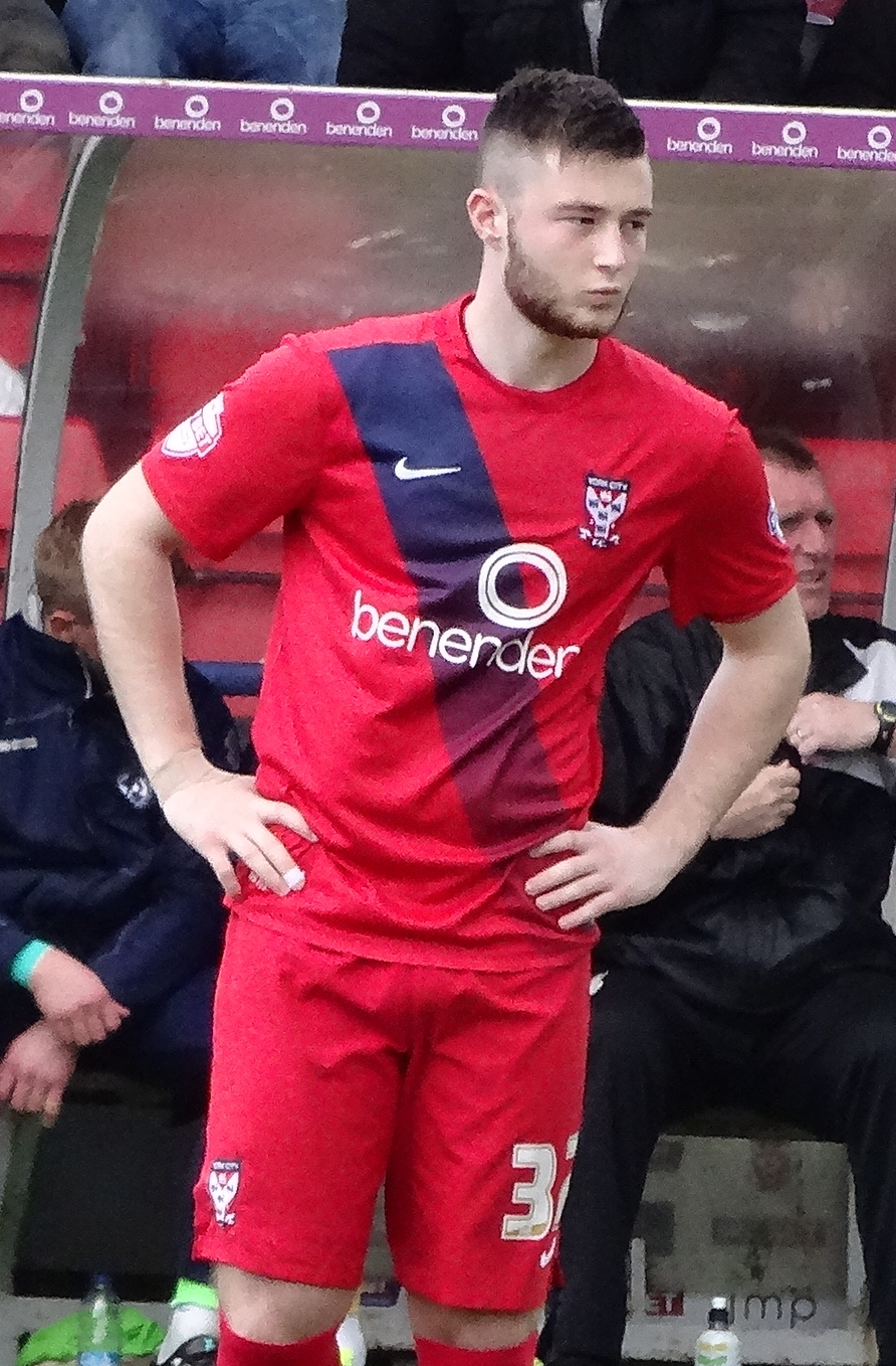 Bradley Fewster playing for York City against Bristol Rovers at Bootham Crescent, York on 30 April 2016